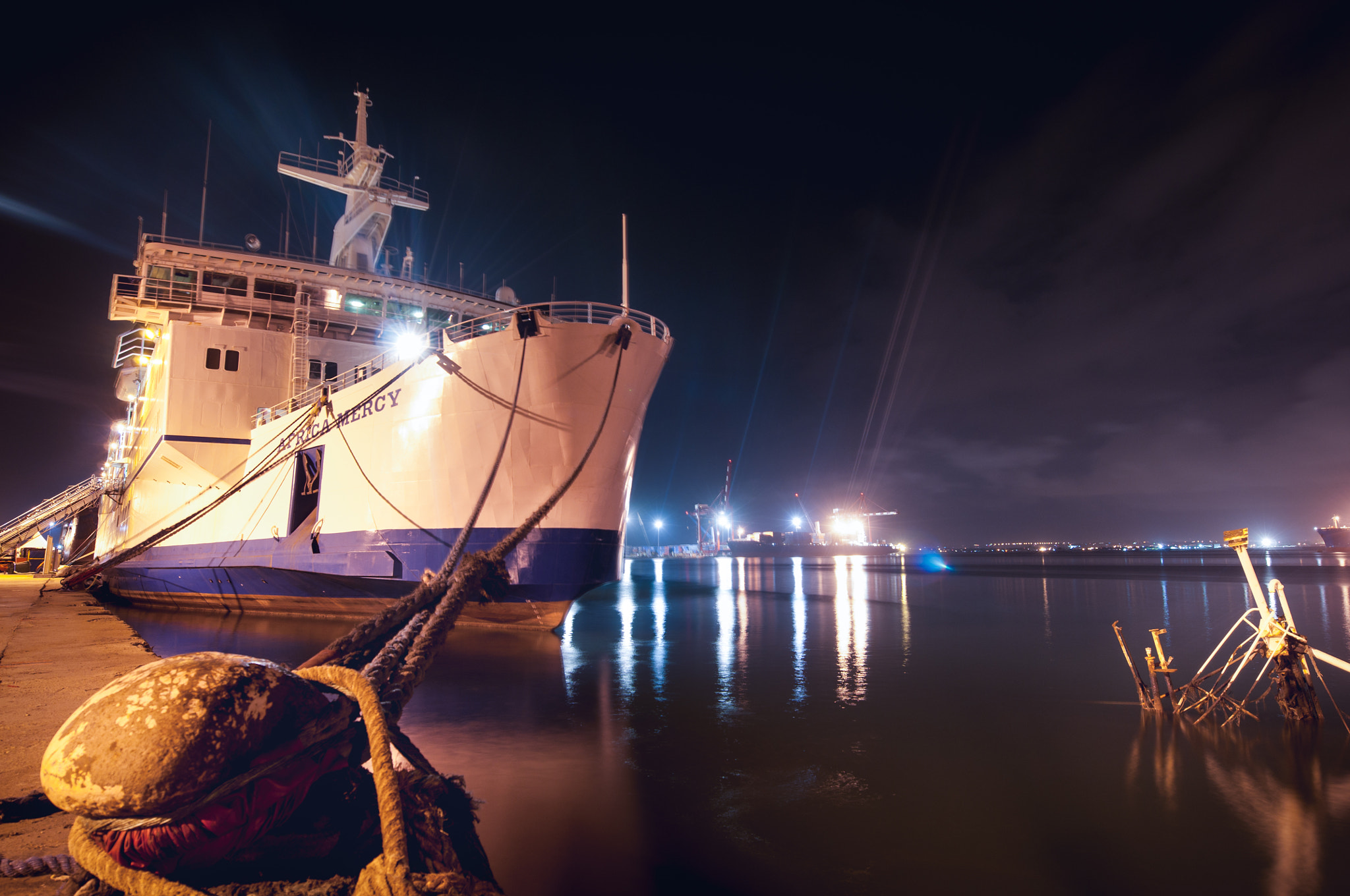 500px provided description: This is my home. The Africa Mercy. A hospital ship run by volunteers from more than 35 countries. Currently in Congo, Pointe Noire. If you ever have the opportunity to visit us, please do. You can also visit our website. [#boat ,#long exposure ,#Port ,#Ship ,#Industry ,#Vessel ,#Congo ,#Mercy Ships ,#Pointe Noire ,#The Africa Mercy]